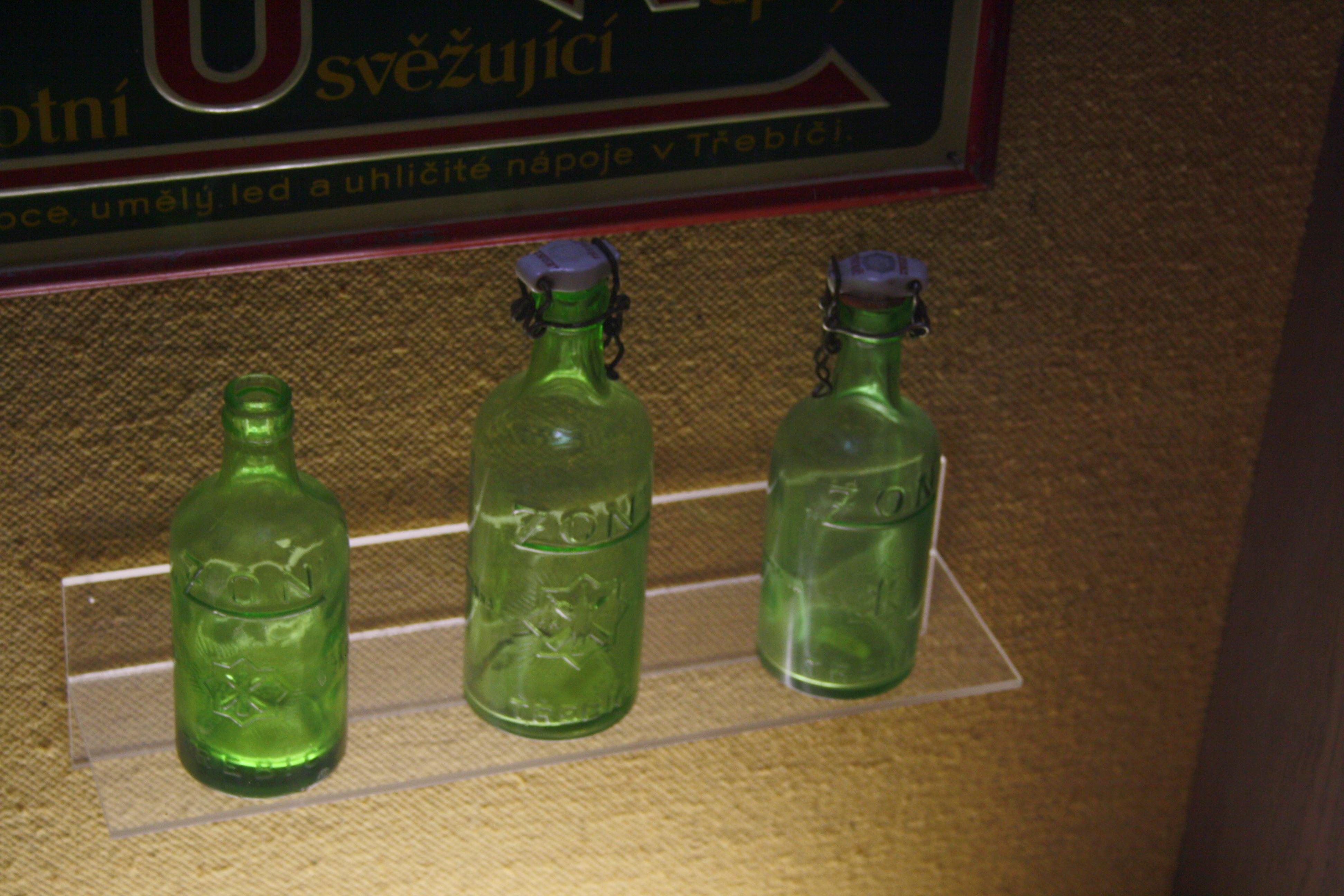 Old bottles of ZON lemonades in Muzeum Vysočiny Třebíč.